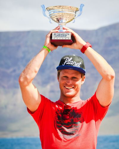 Portrait of Marlon Lipke, 2012 ASP Europe Champion !